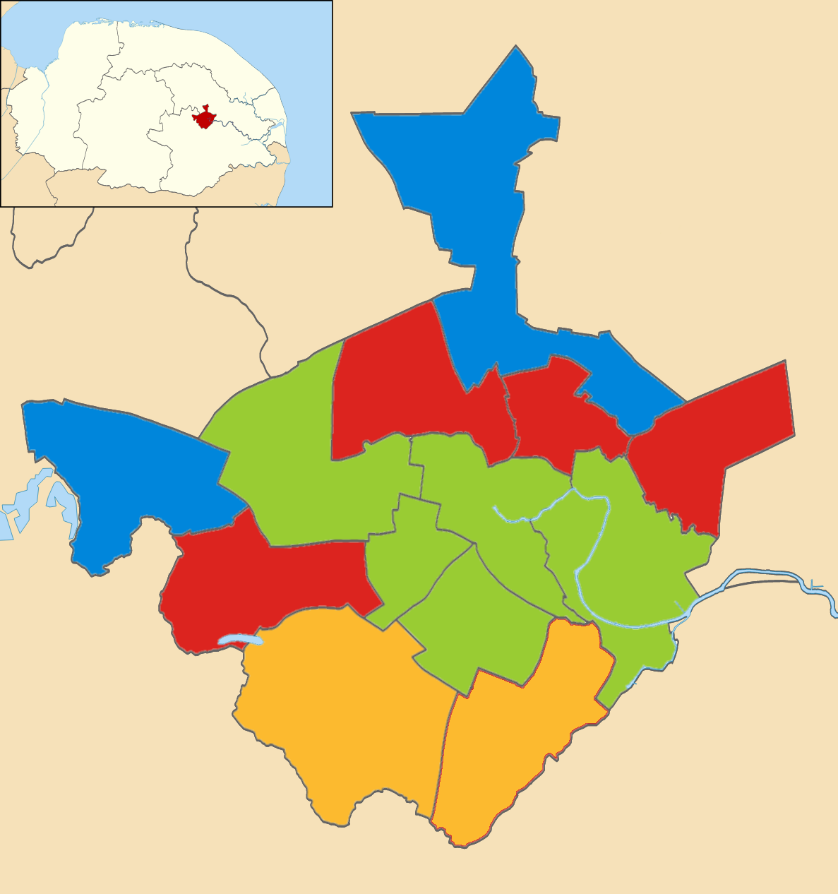 Results of the 2008 local elections in Norwich Colours: Conservative Labour Liberal Democrat Green Party